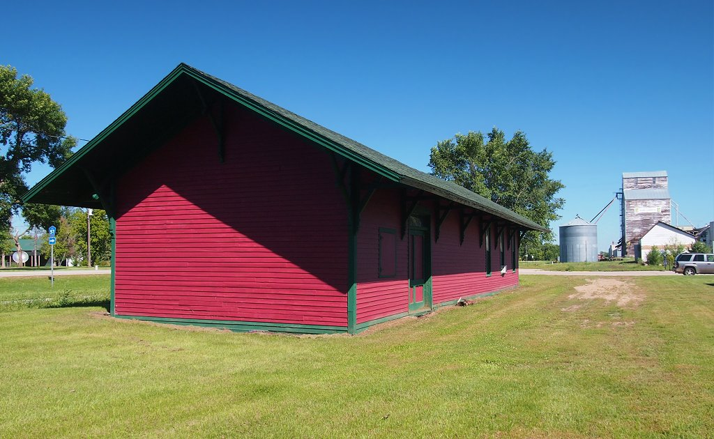 The historic Northern Pacific Depot and its environs viewed from the west-southwest, Villard, Minnesota, USA